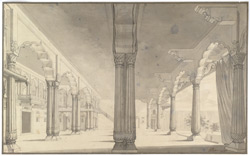 Inside View of the Palace at Bangalore. 10